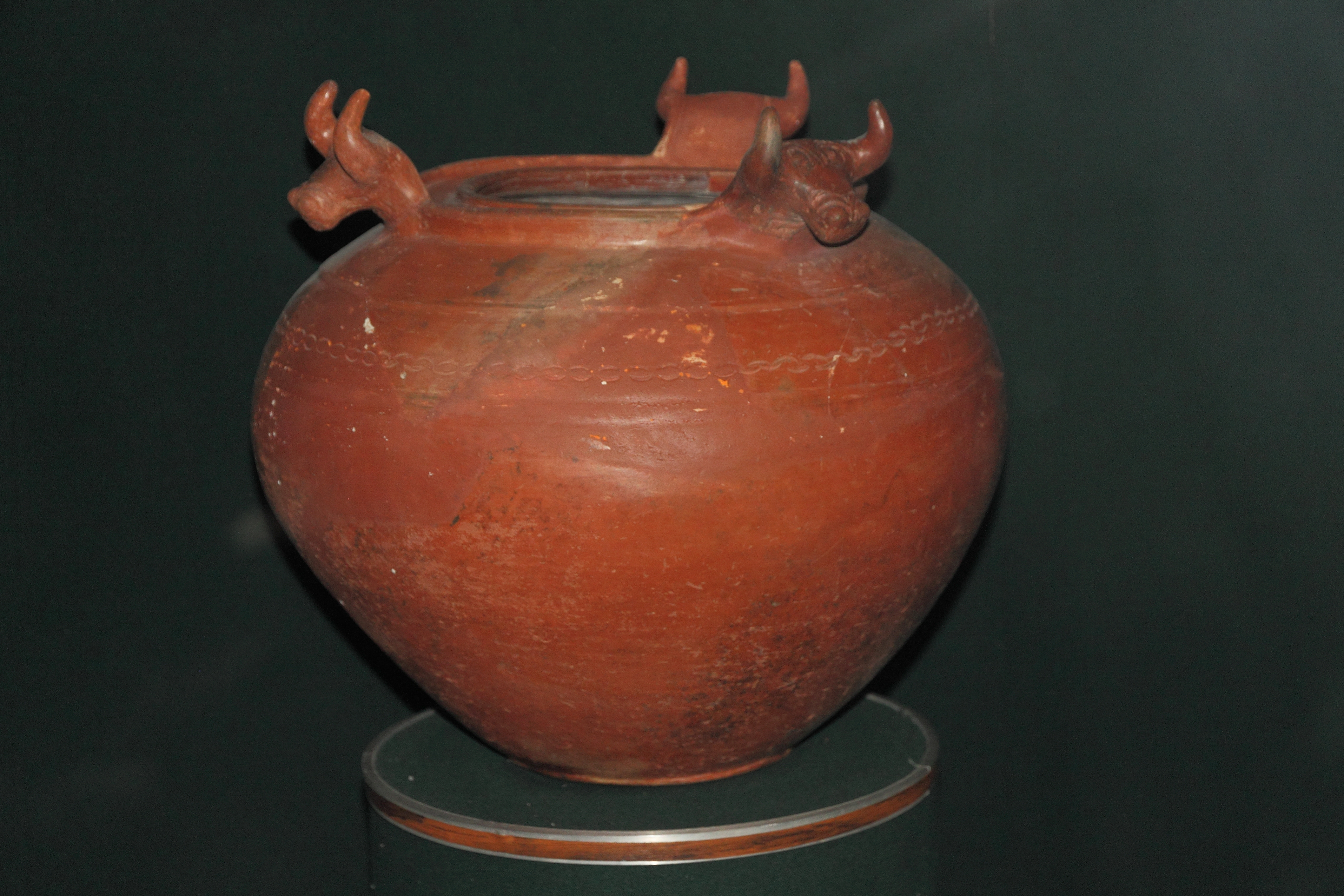 Slipware ritual vessel depicting bulls. Erebuni Museum. Erebuni District. Yerevan, Armenia.